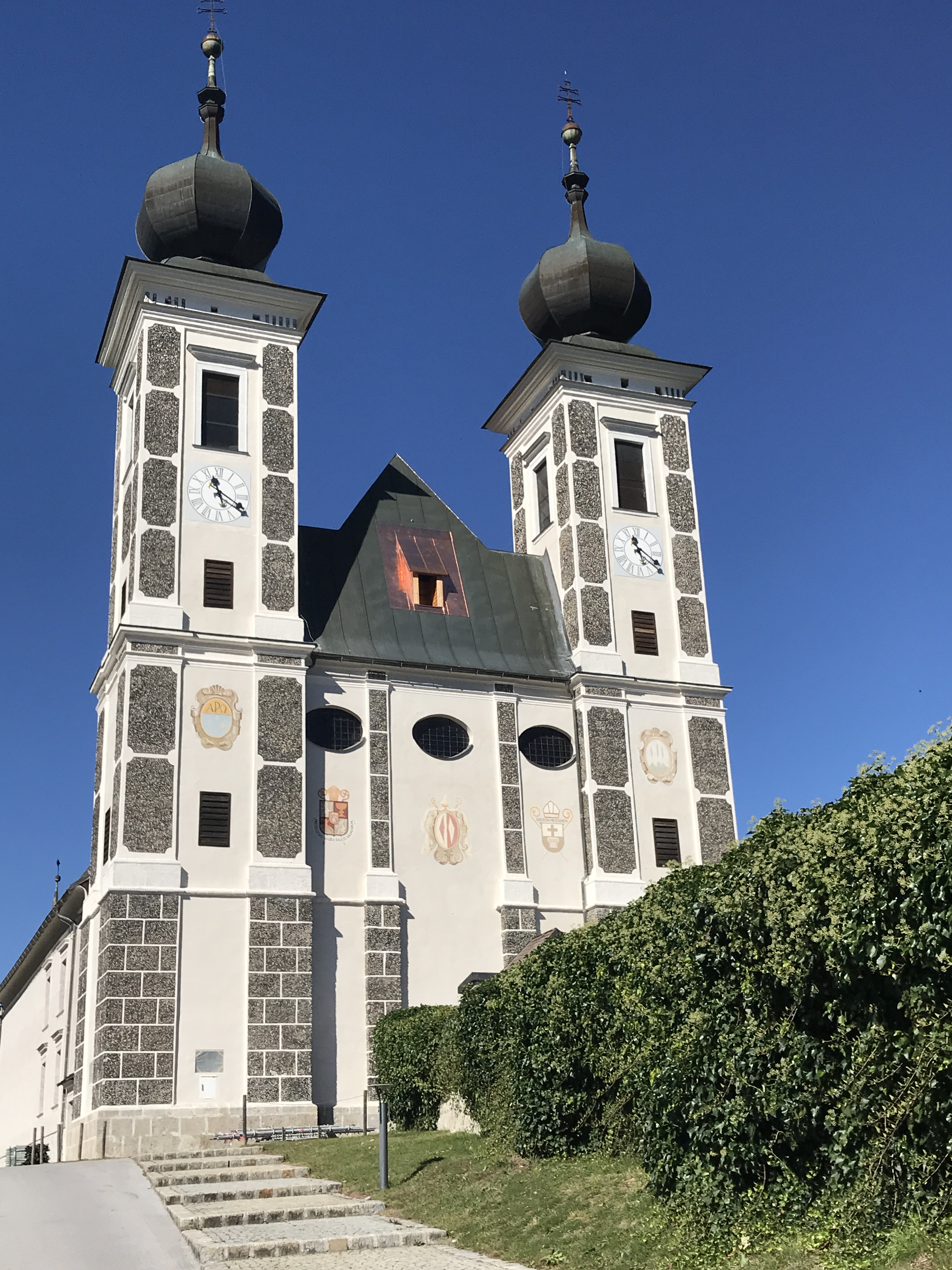 Sanctuary Frauenberg an der Enns (Austria)